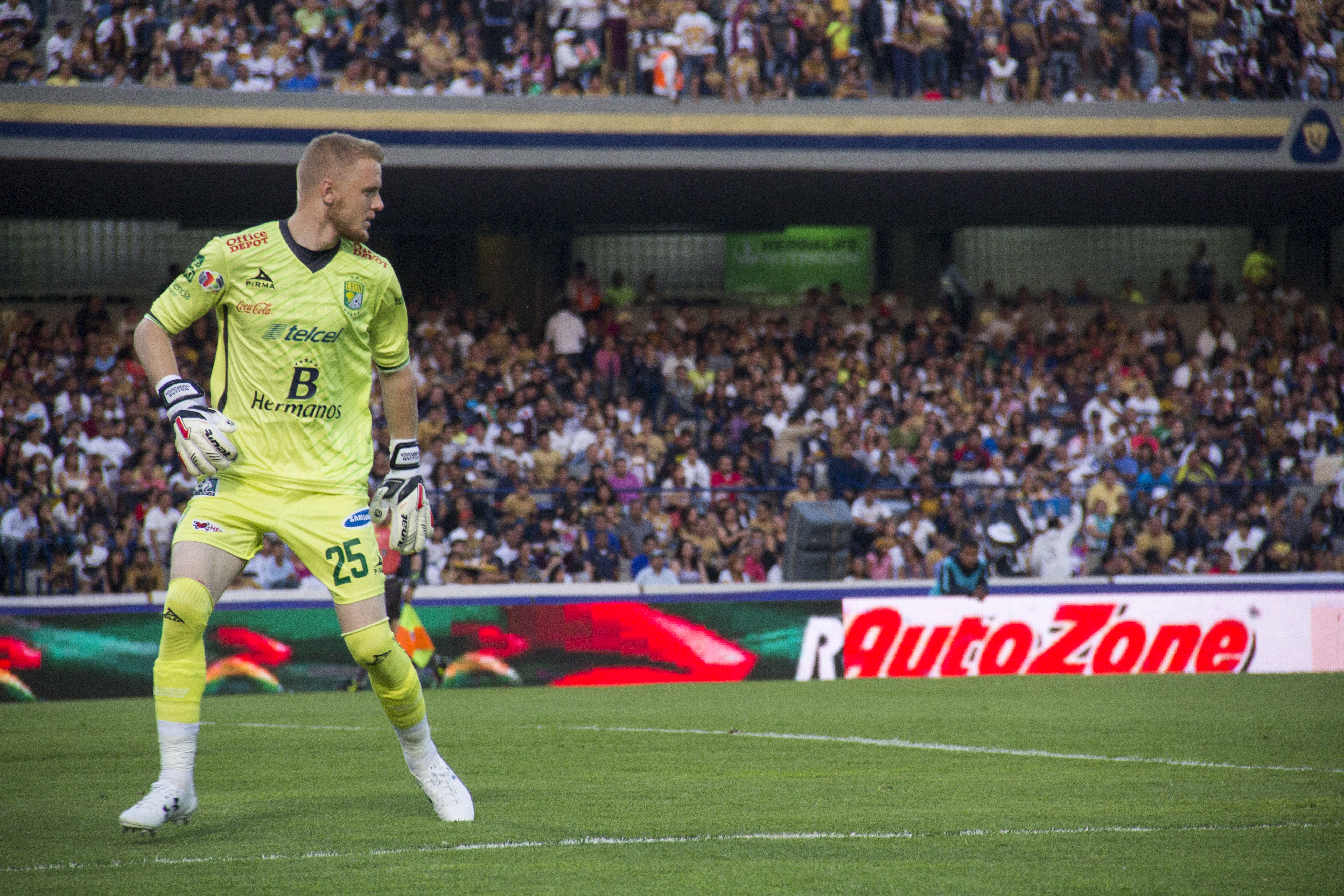 William Yarbrough